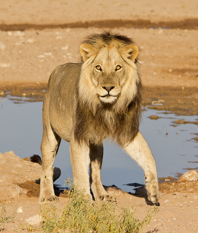 At a waterhole